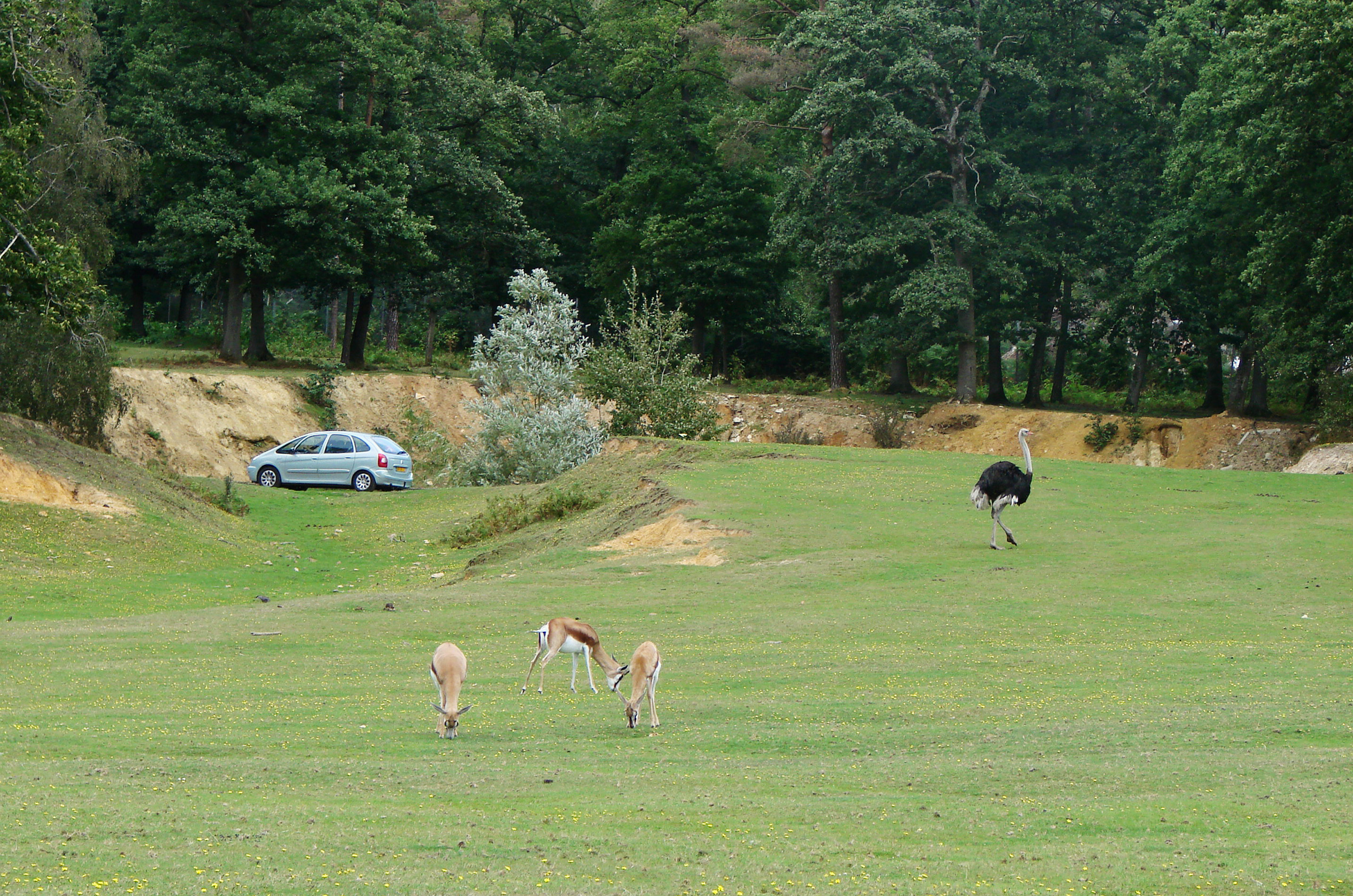 The "safari" in the Thoiry zoo.